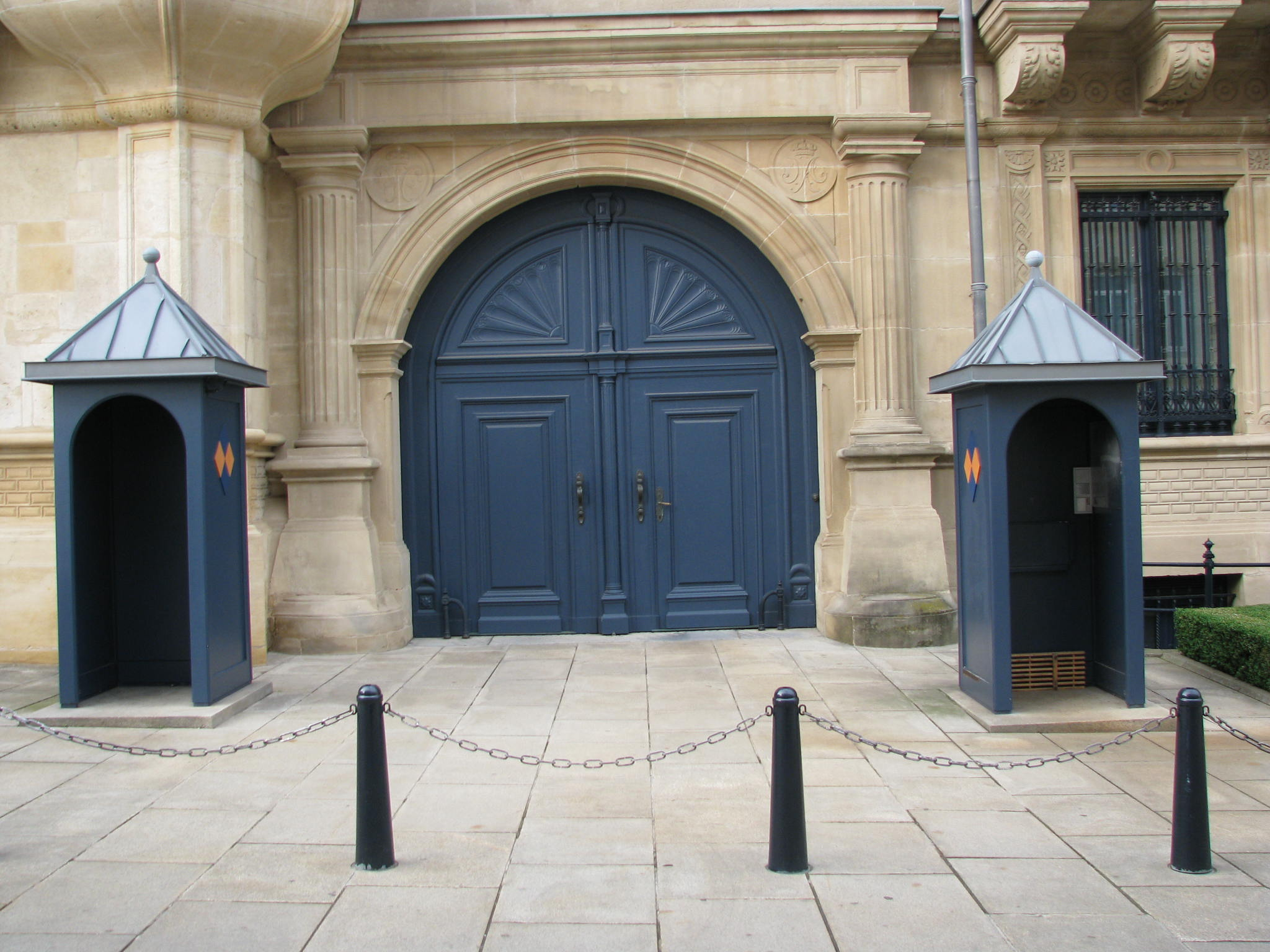 Grand Ducal Palace in Luxembourg City, Luxembourg.